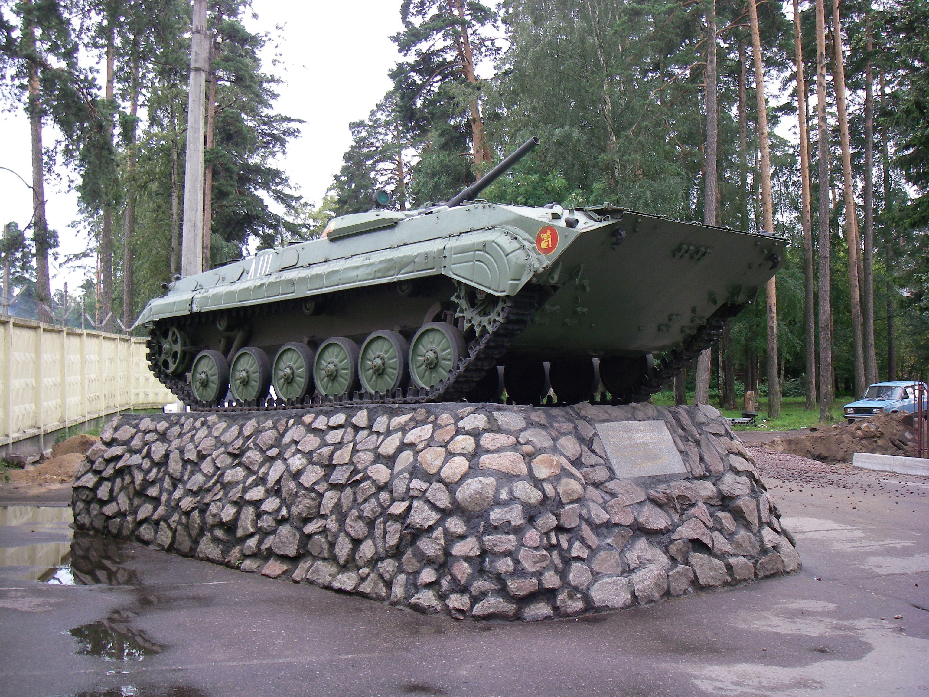 BMP-1 in Lebyazhye settlement